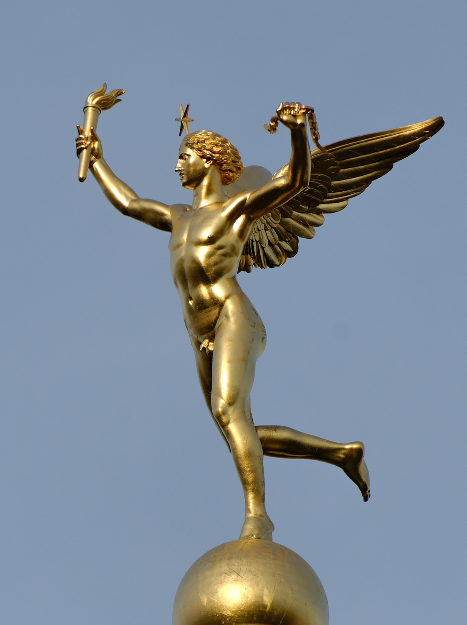 The Genius of Liberty, by Augustin Dumont (French, 1801–1884), topping the July Column at the Place de la Bastille in Paris. Gilt bronze, 1833. H. 4 m (13 ft. 1 ¼ in.). A bronze draft of the same work is also exhibited in the Louvre Museum (RF 680).